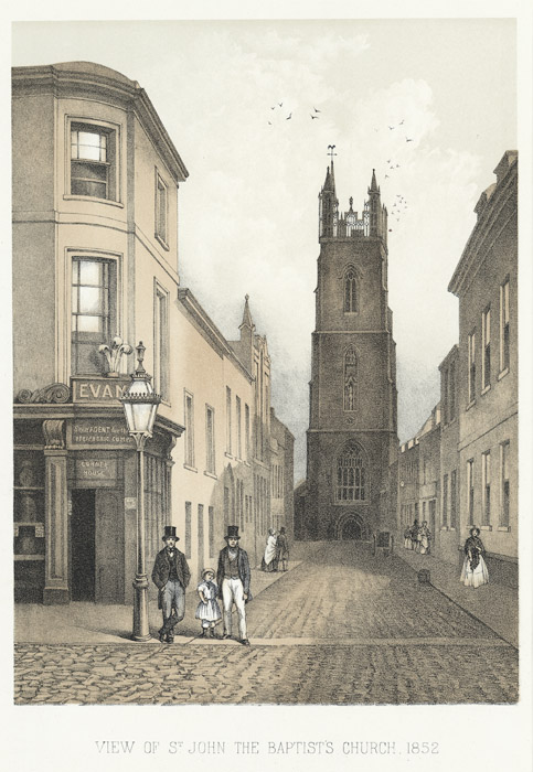 A street scene showing the St Baptist Church at Cardiff. A street lamp and a corner shop can be seen in the foreground along with people walking the streets.